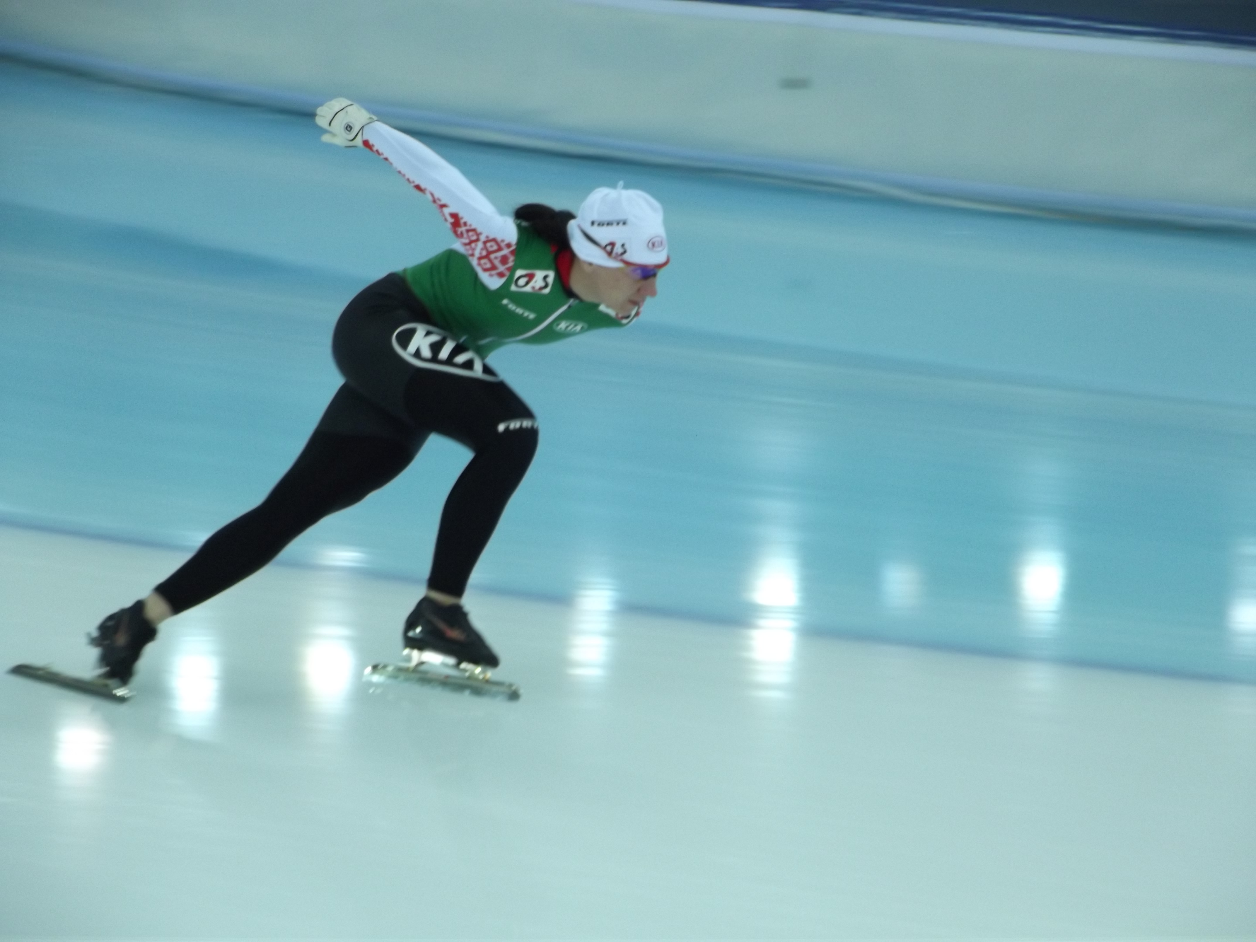 2013 World Single Distance Speed Skating Championships